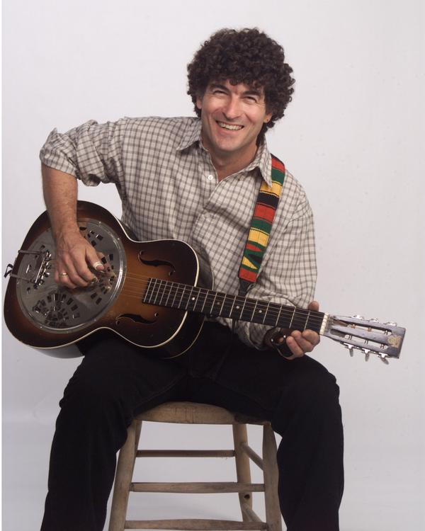 Chris Vallillo